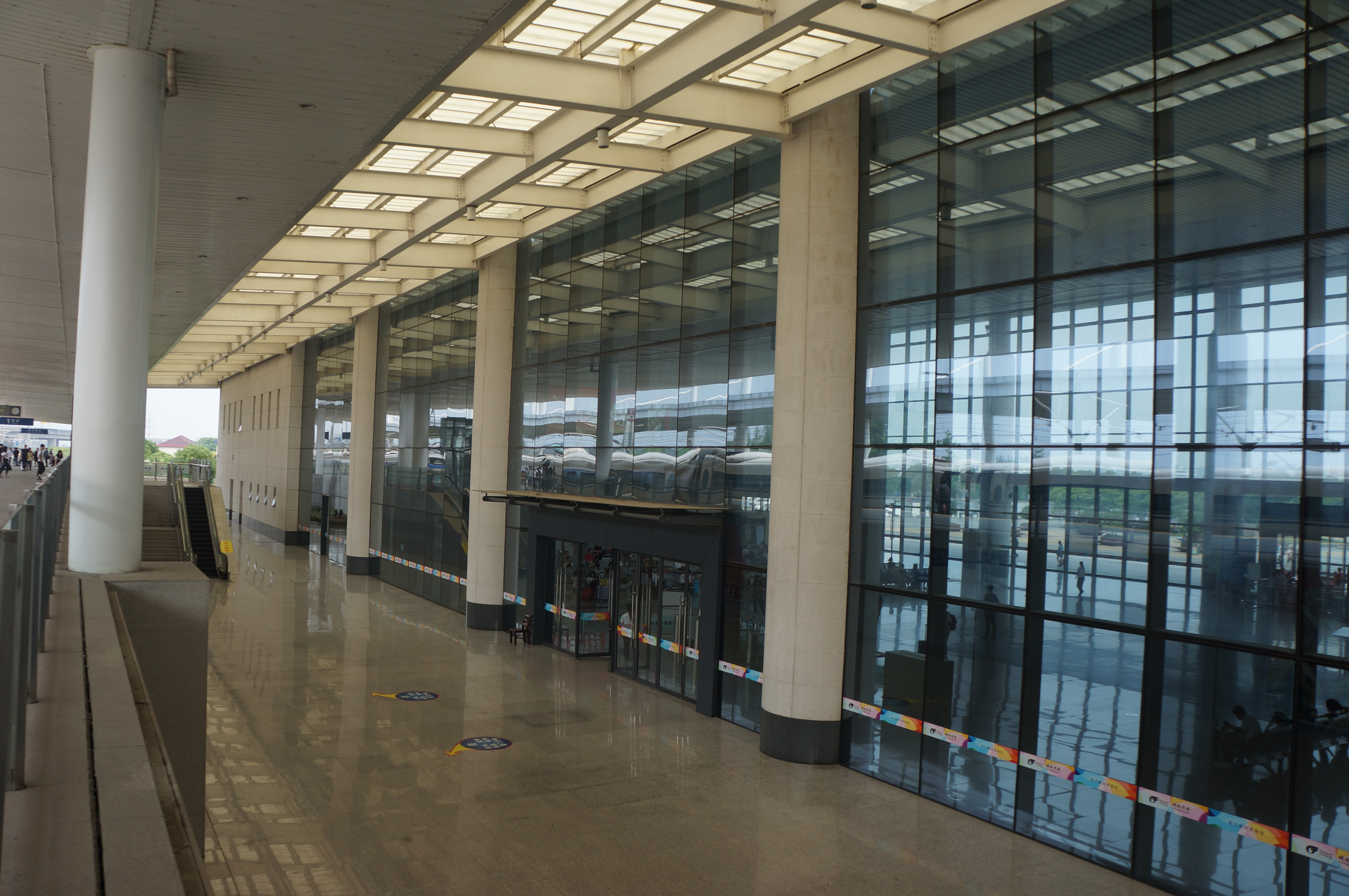 201706 Channel between station building and platform at Songjiangnan Station.jpg